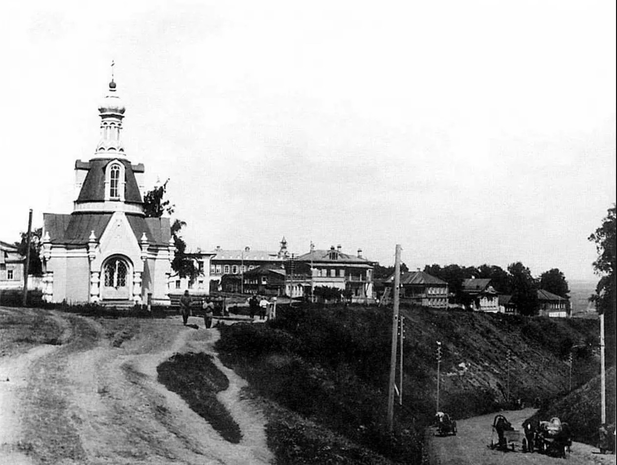 Old Vyatka. Chapel of St Michael the Archangel (Ustyuzhskaya Chapel) on Razderikhinsky Ravine.